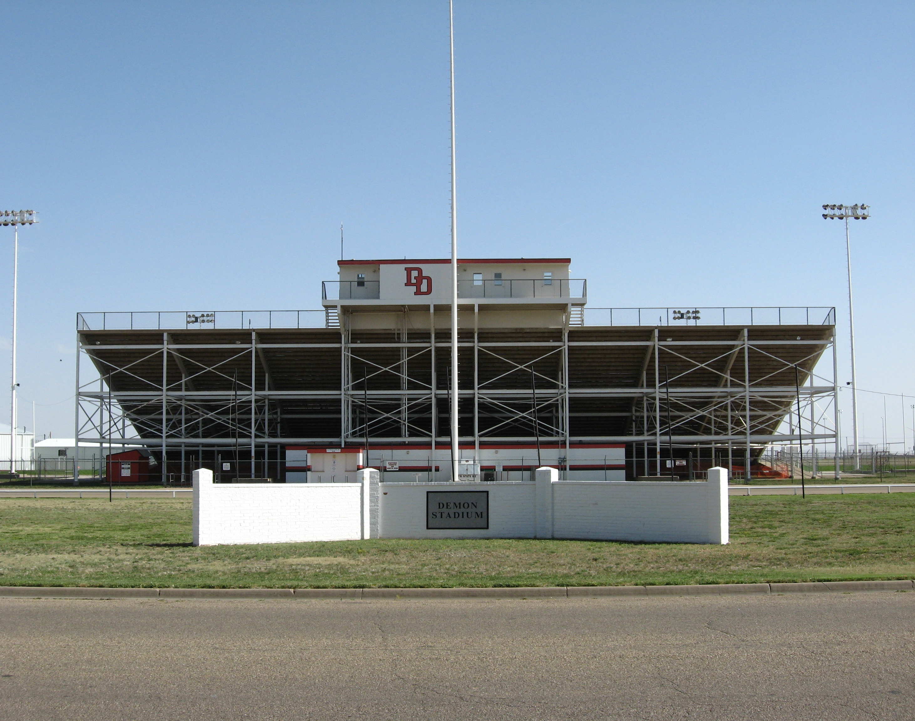 High school football stadium in Dumas, Texas, U.S.